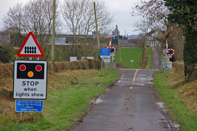 Aughalish level crossing Aughalish is an automatic half-barrier crossing remotely monitored. It carries the Connaught Road across the Belfast-Londonderry railway. Belfast is to the left.